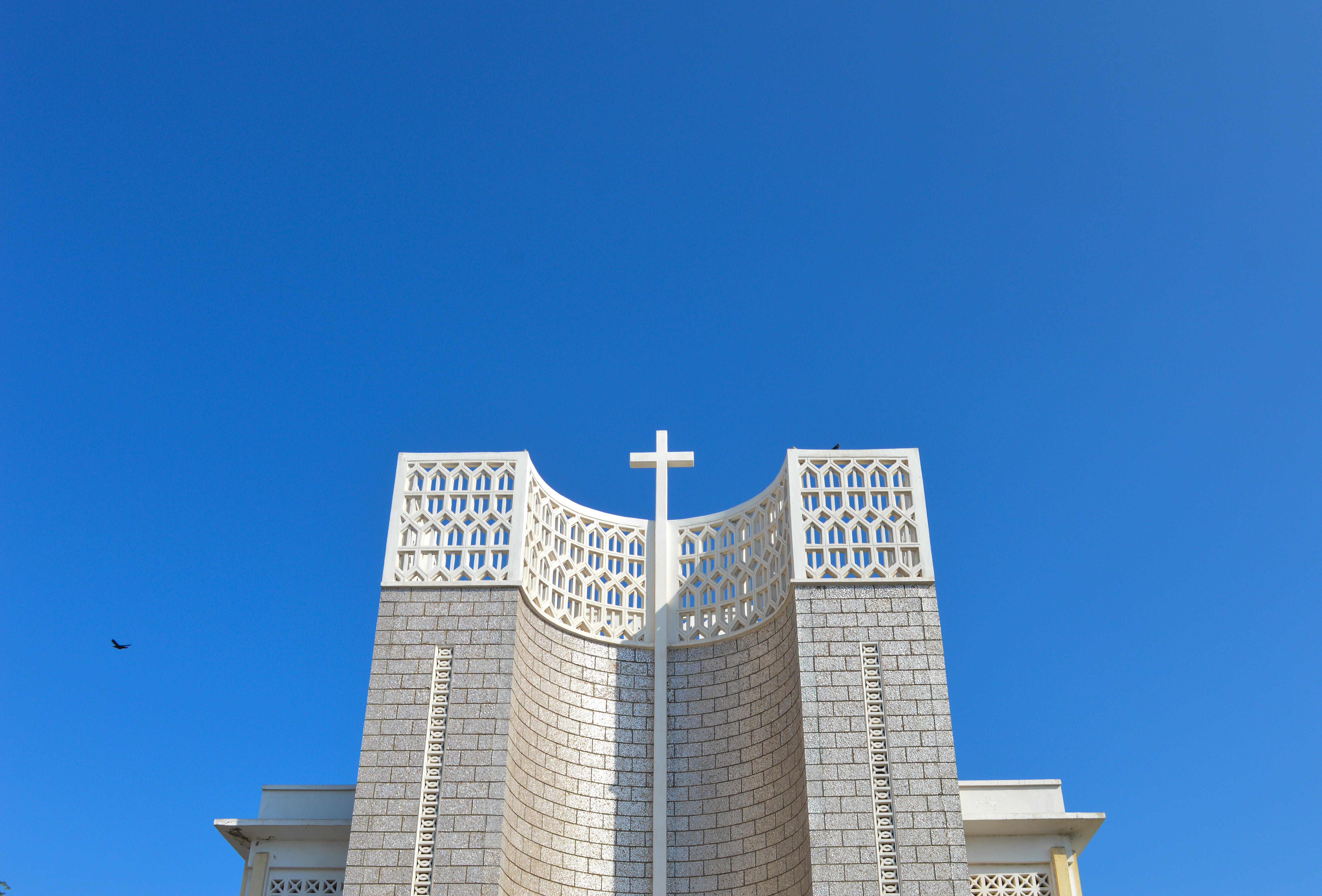 Cathedral in Djibouti